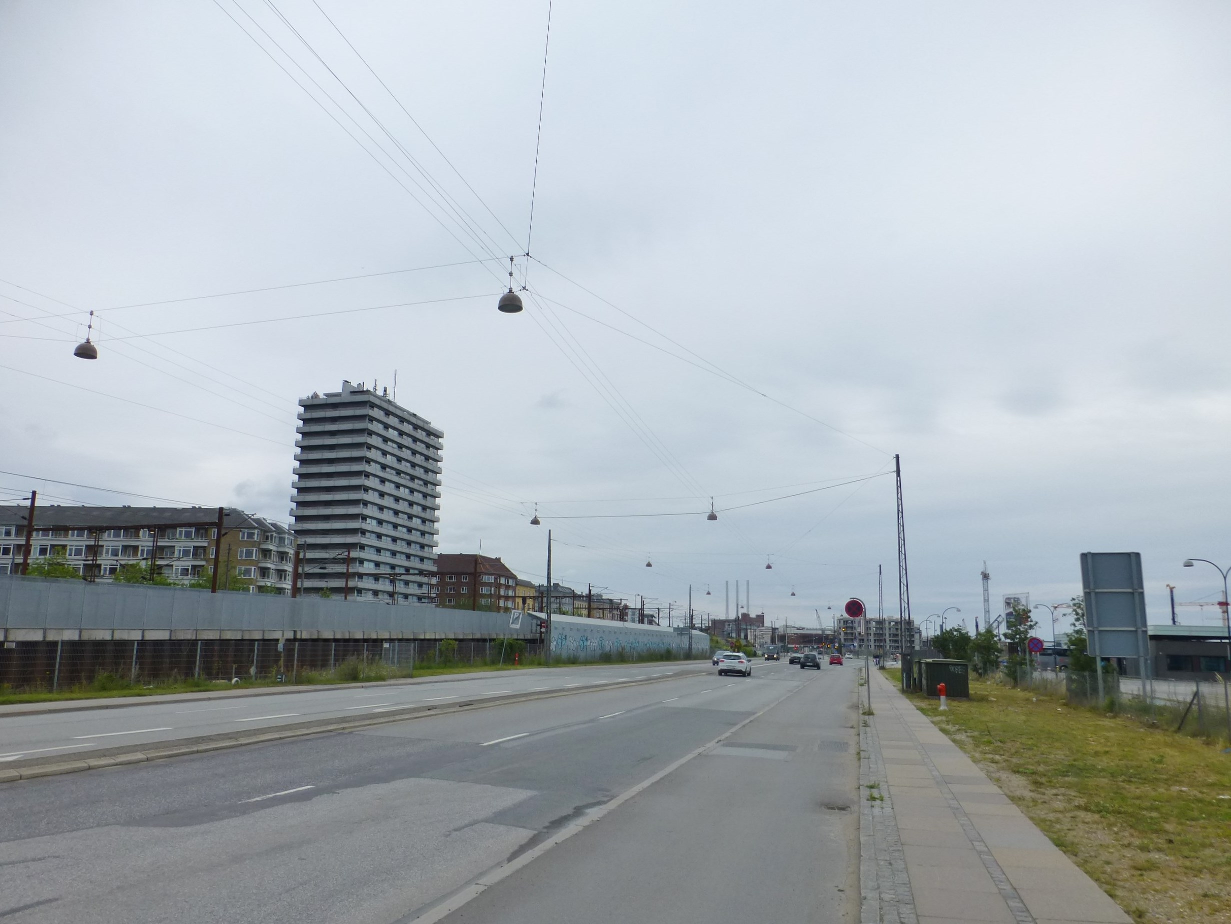 The street Kalkbrænderihavnsgade in Østerbro in Copenhagen. At the left the high-rise Domus Portus.